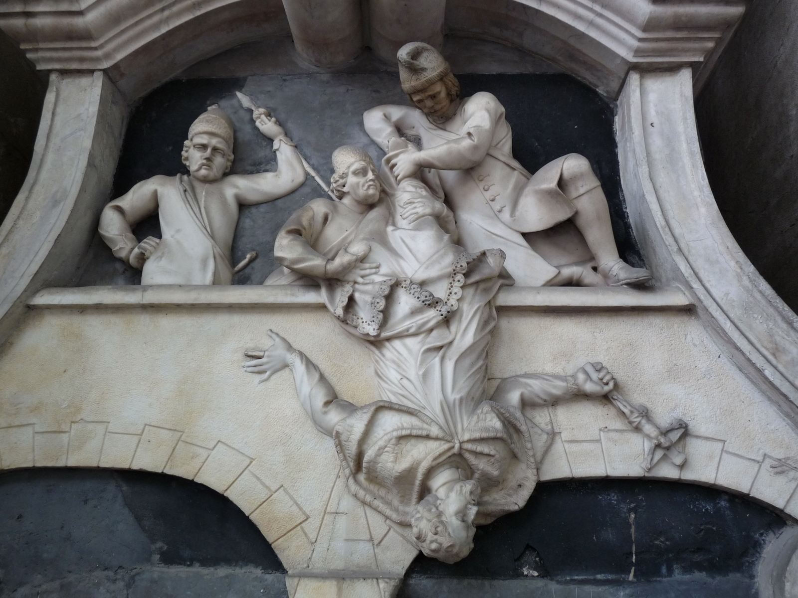 The relief of St. John of Nepomuk, part of the statue of St. John of Nepomuk at the facade of St. Florian's Church in Ljubljana. Created in 1727 from white Carrara marble.